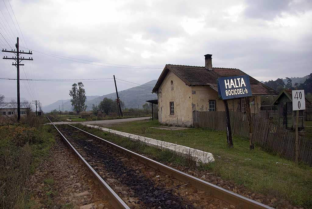 Trainstop in Bocicoel Maramureş Romania